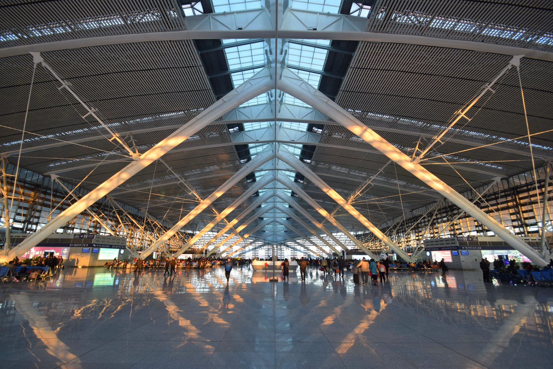 Concourse of Qingdao Bei (North) Railway Station